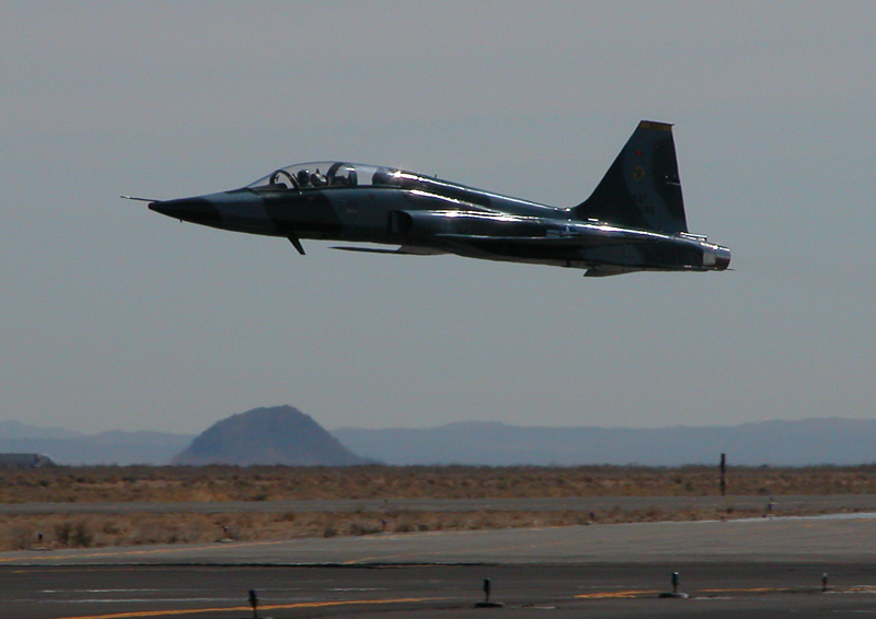 A privately-owned F-5B makes a low pass down the runway at the Mojave Spaceport